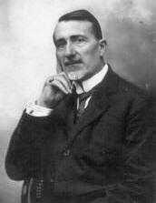 Photograph of the Italian psychologist Sante de Sanctis (1862–1935).